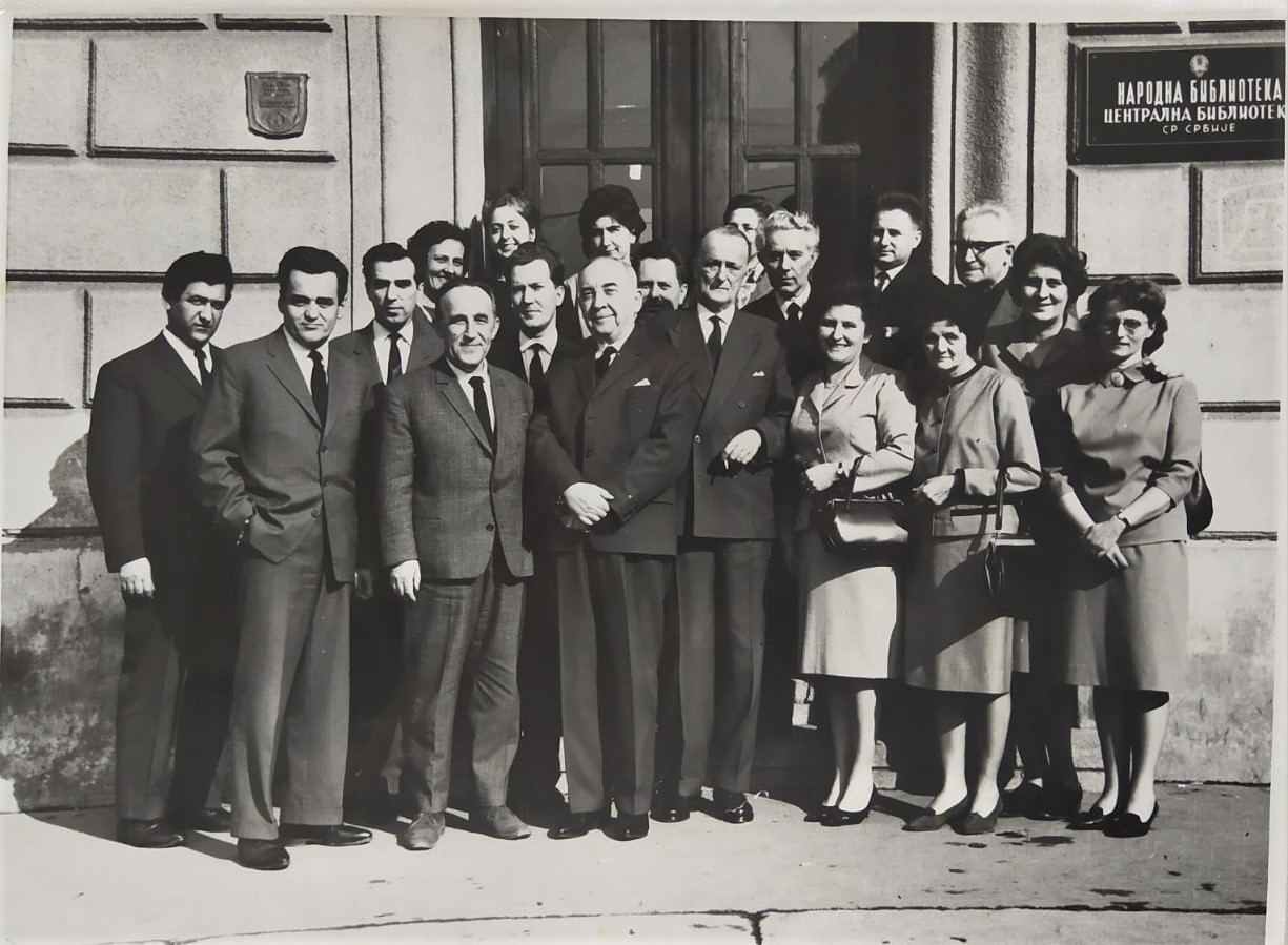 Employees in front of the National Library of Serbia, including Milorad Panić-Surep (1912-1968) and Milorad Živanov (1928-2000). Photo can be found in the Society for Culture, Art and International Cooperation Adligat in Belgrade, Serbia. Српски (ћирилица): Запослени испред Народне библиотеке Србије. Фотографија се налази у Удружењу за културу, уметност и међународну сарадњу „Адлигат” у Београду.